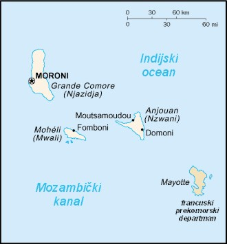 Map of Comoros